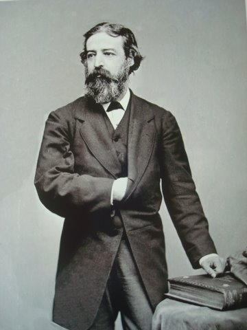 Manuel Rafael García Aguirre in Washington. 1865.